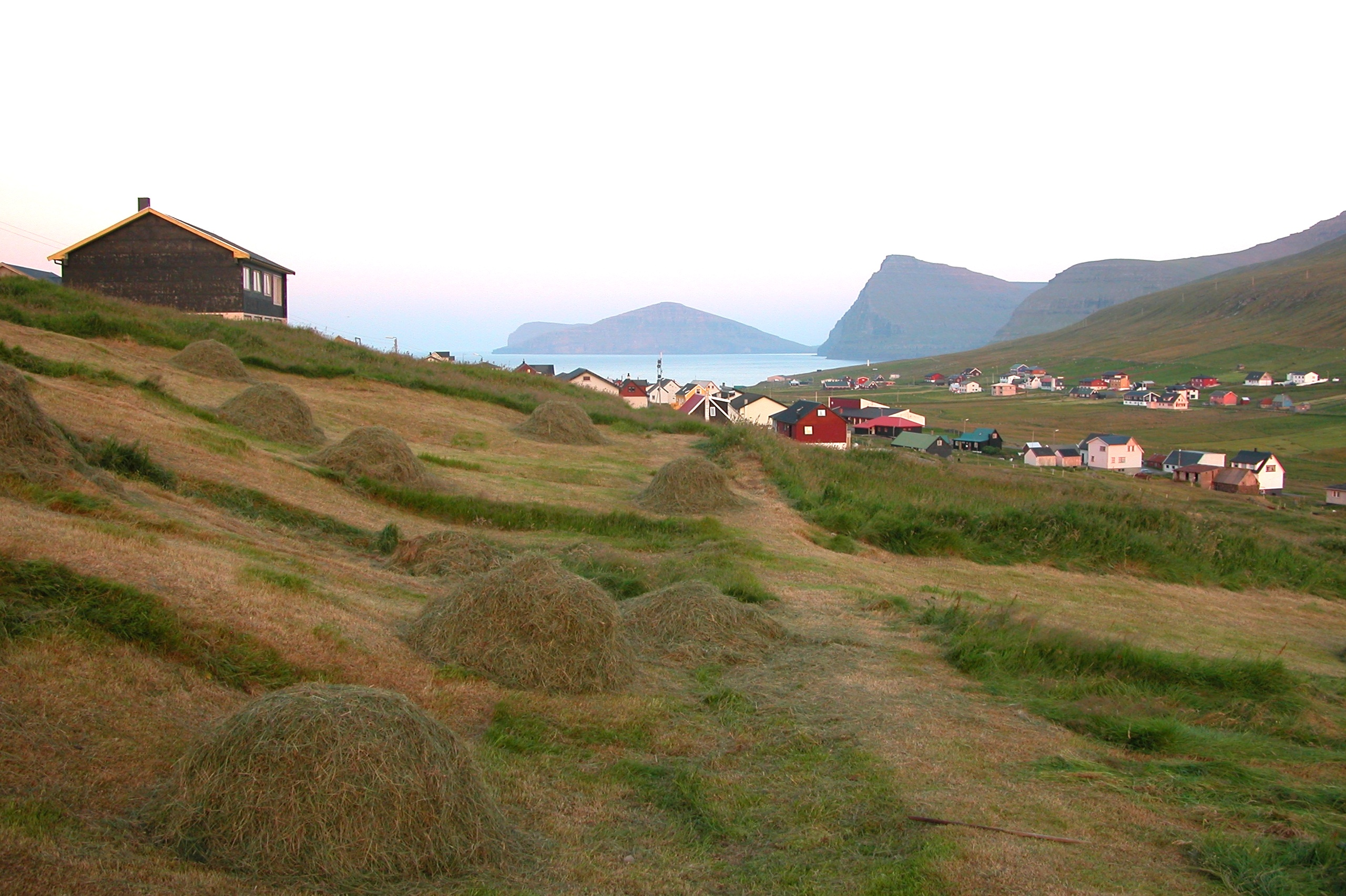 Viðareiði on Viðoy, Faroe Islands. View westwards on Svínoy